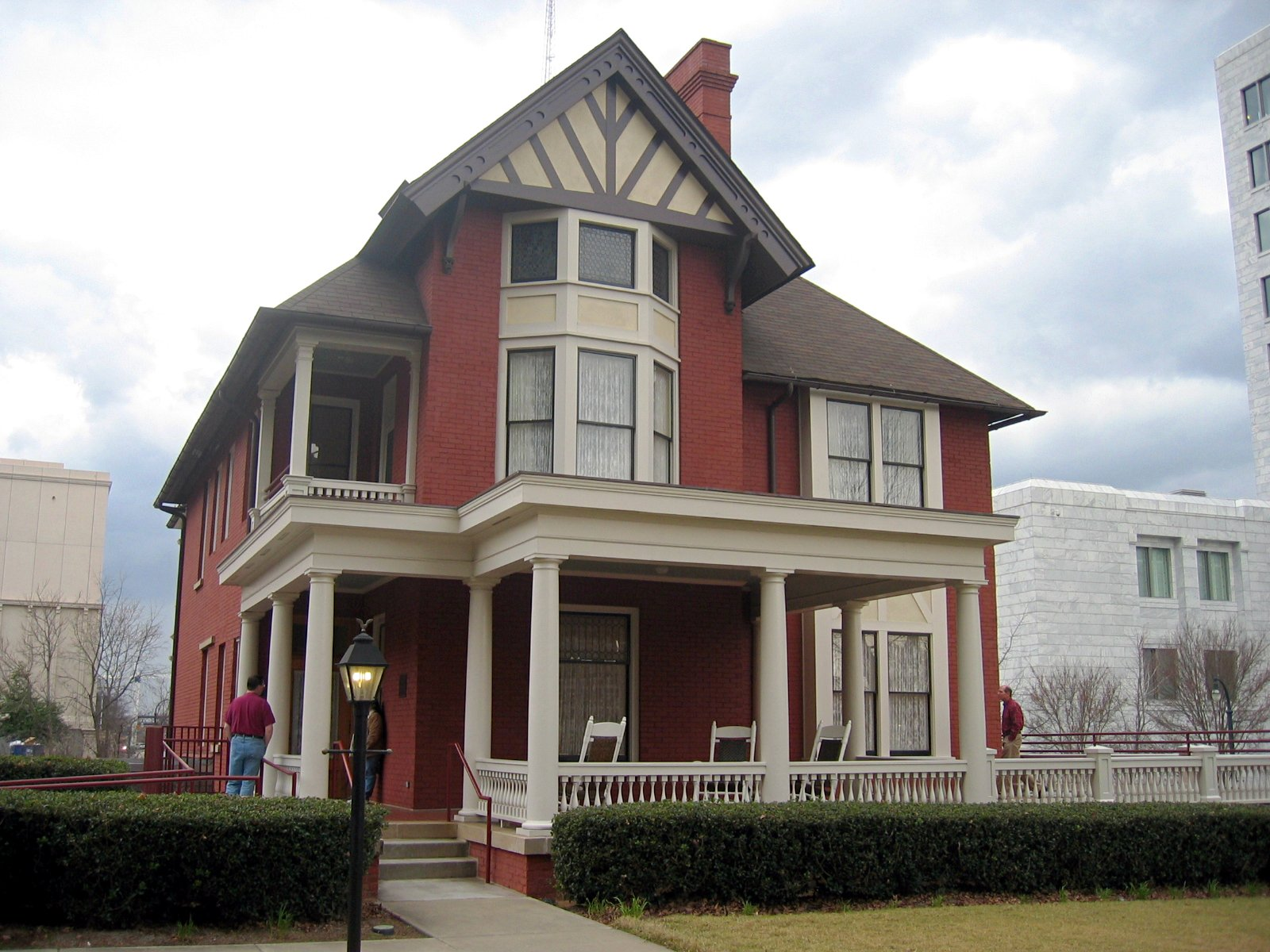 Photograph of the Margaret Mitchell House in Atlanta, Georgia (U.S. state)|Georgia. Credits Taken by Jin-Ping Han on January 30th 2006 using a Canon Inc. Powershot S400 digital camera